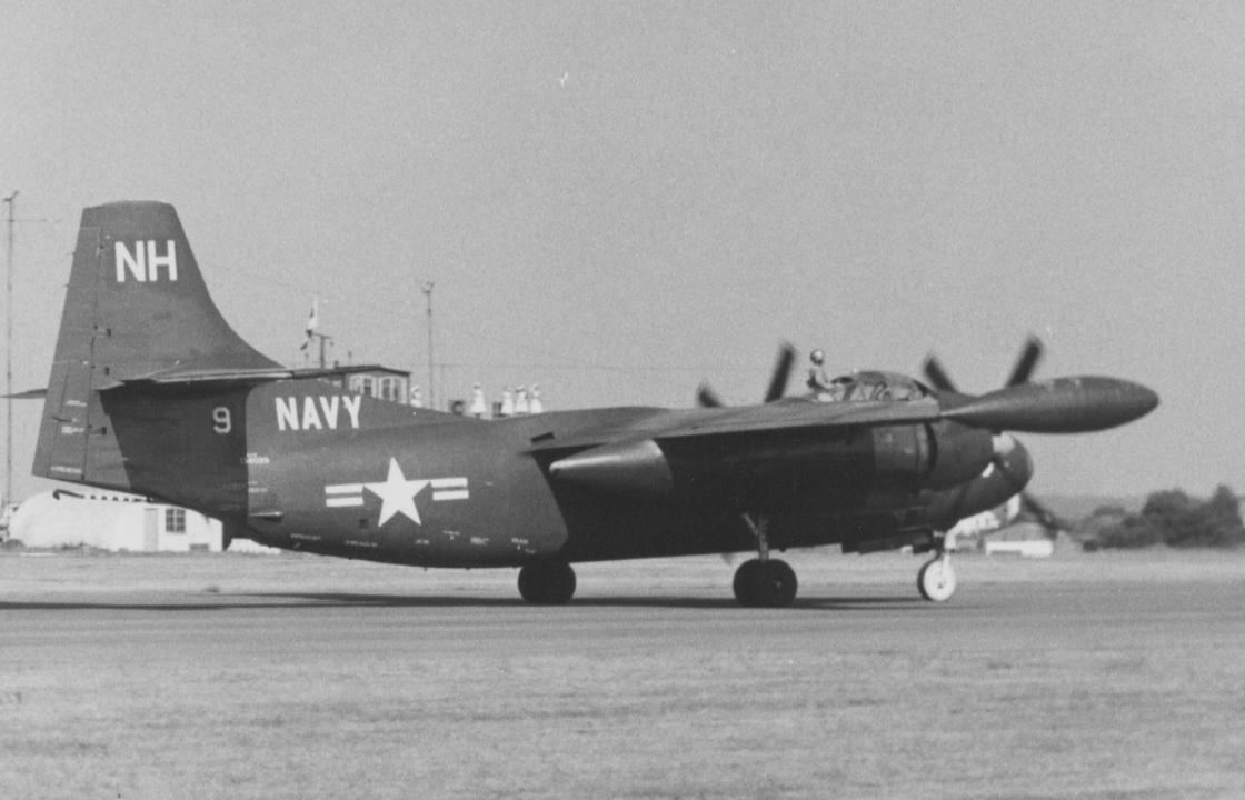 An AJ-2 Savage of VC-7 Squadron U.S. Navy at Blackbushe Airport, England